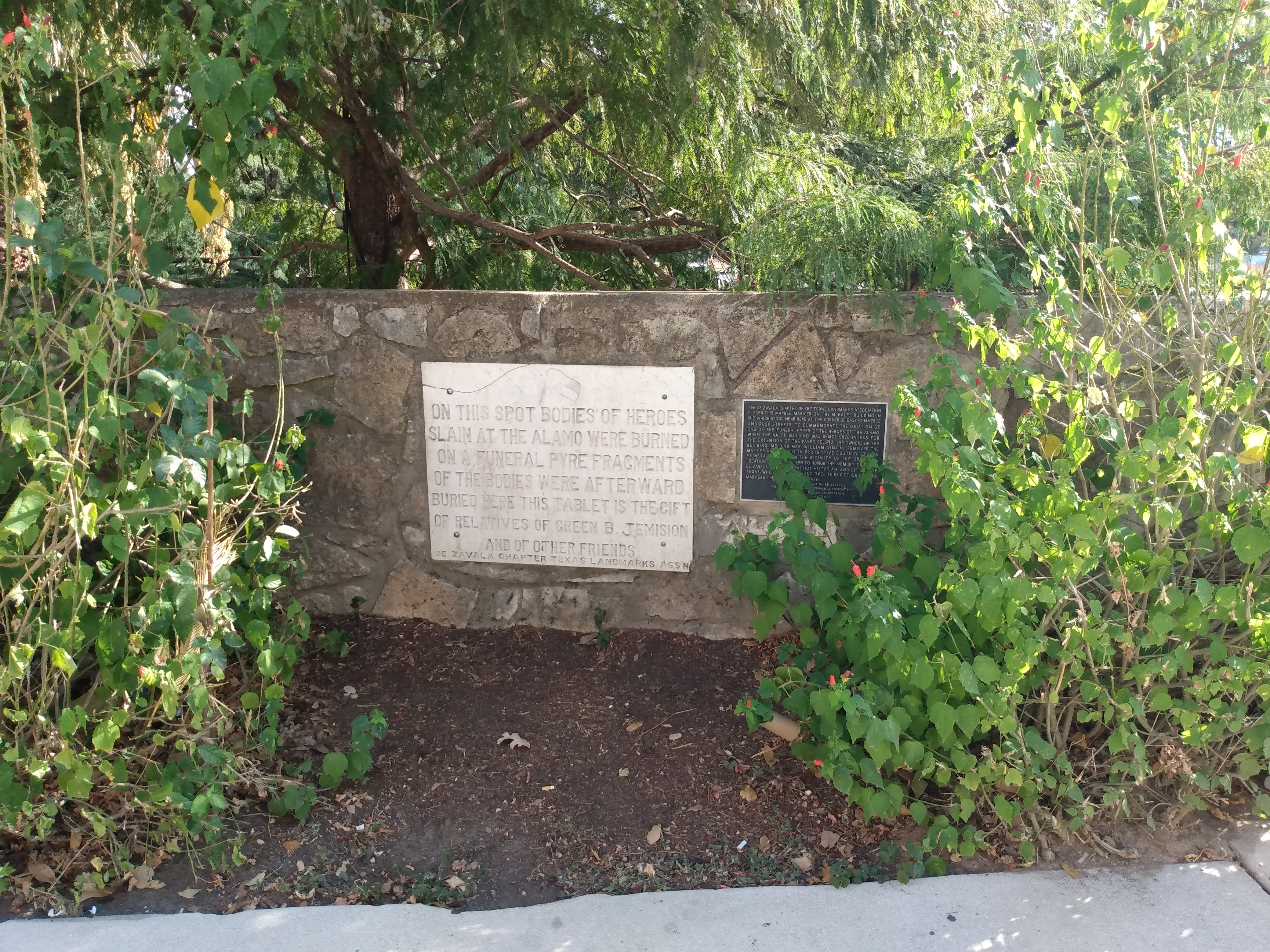 Plaque spotting the place were was buried the bodies of Alamo occupiers. E Market street, San Antonio.